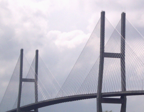 Photo taken Oct 1, 2005 by William C. Francis. Photo was taken during CoastFest 2005, from the lot behind the Department of Natural Resources building in Brunswick Georgia, using a Kodak DX-4530 set on Landscape setting (for distance shots). Photo was edited using Micrografx Picture Publisher; it was cropped and edited for brightness and contrast and a sharpness filter was applied, and it was reduced in size before uploading.